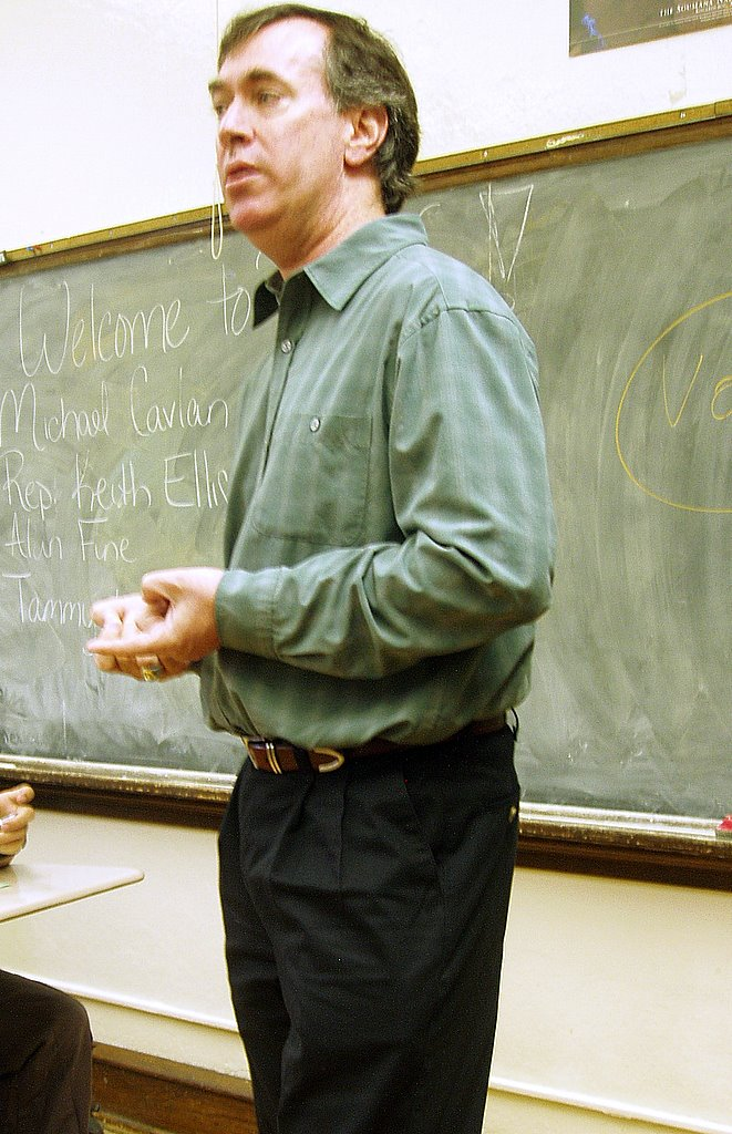 Michael Cavlan speaks at Patrick Henry High School, Minneapolis, in September 2006